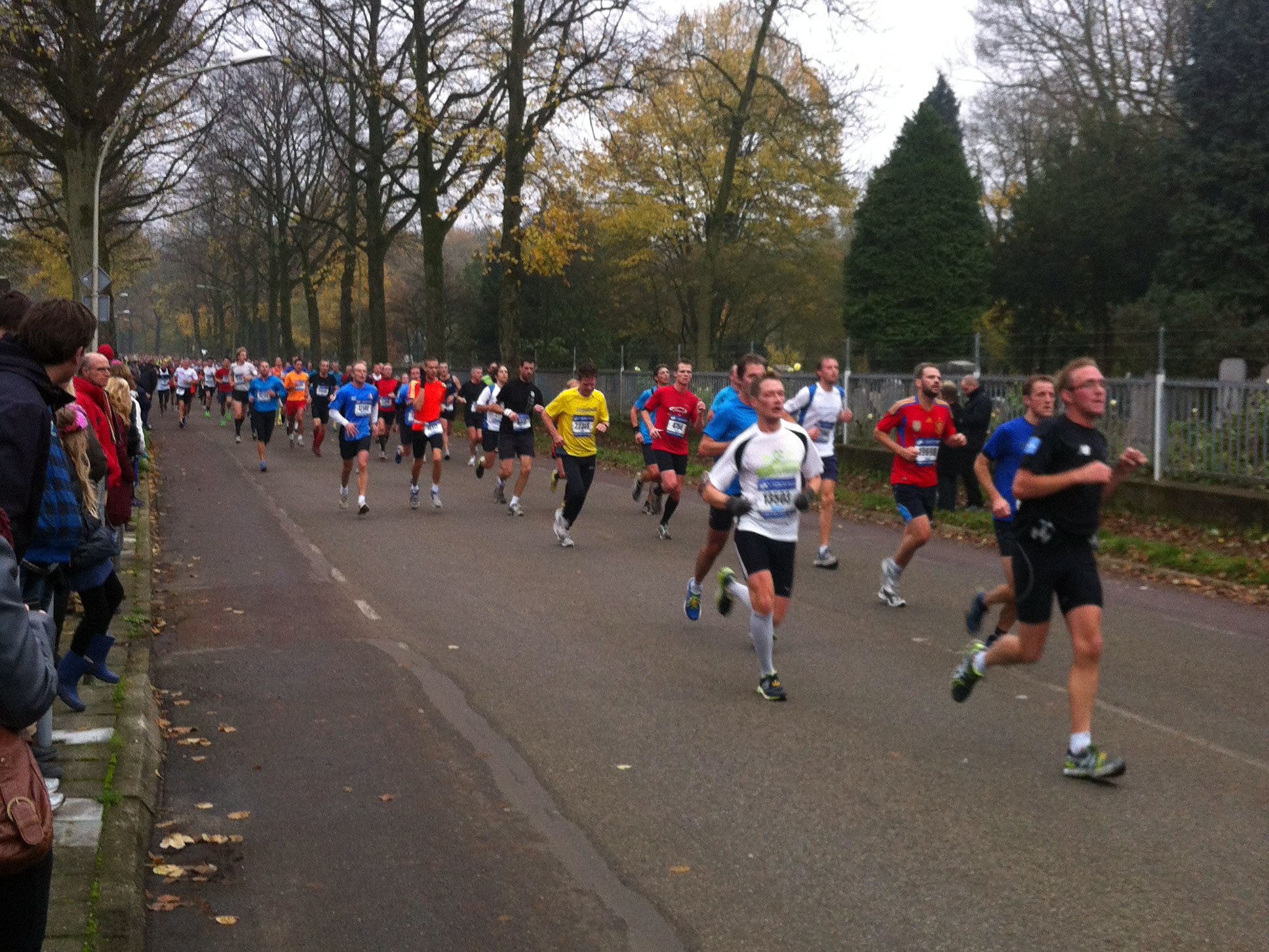 Shot of runners during the 2013 Zevenheuvelenloop in Nijmegen, the Netherlands. Shot taken at the end of the Kwakkenbergweg.